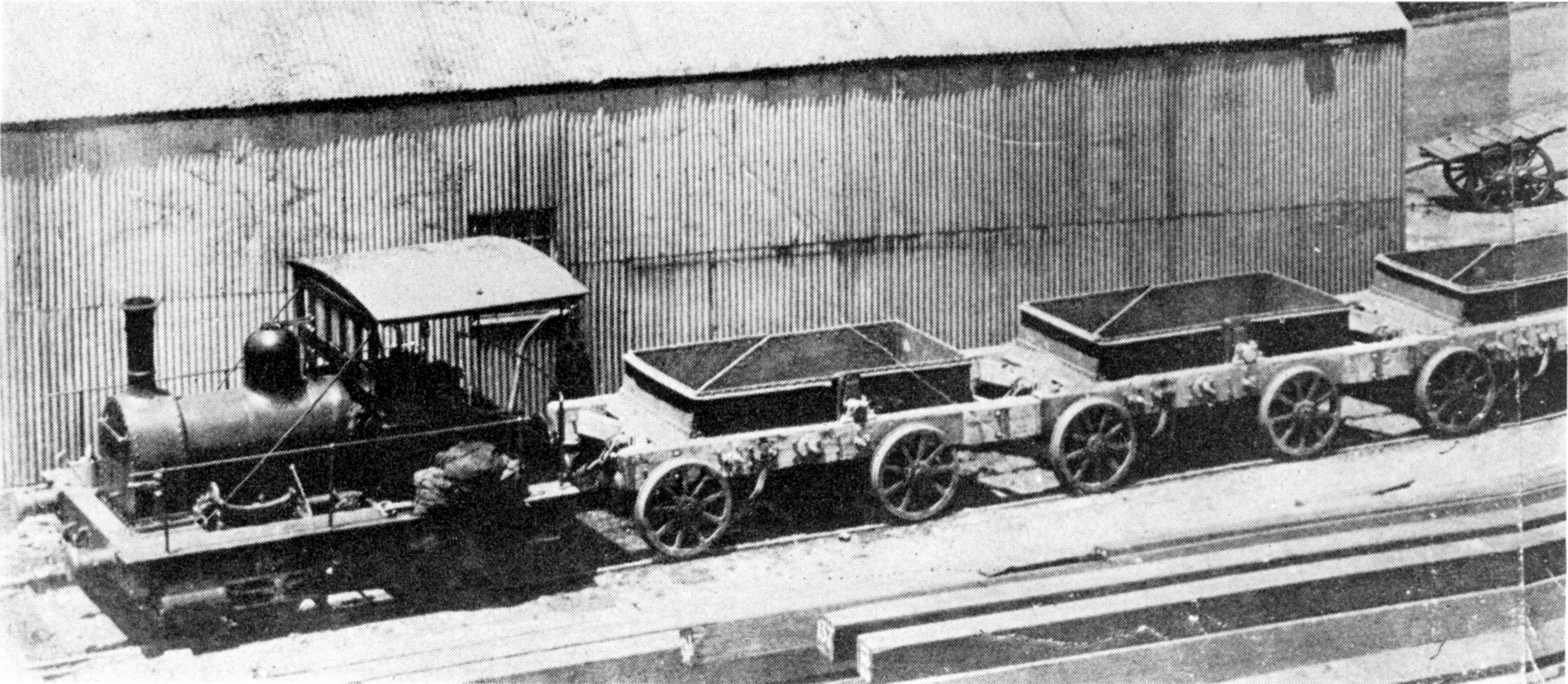 Cape Town Harbour Board’s 7 ft ¼ in gauge 0-4-0 construction locomotive of 1879